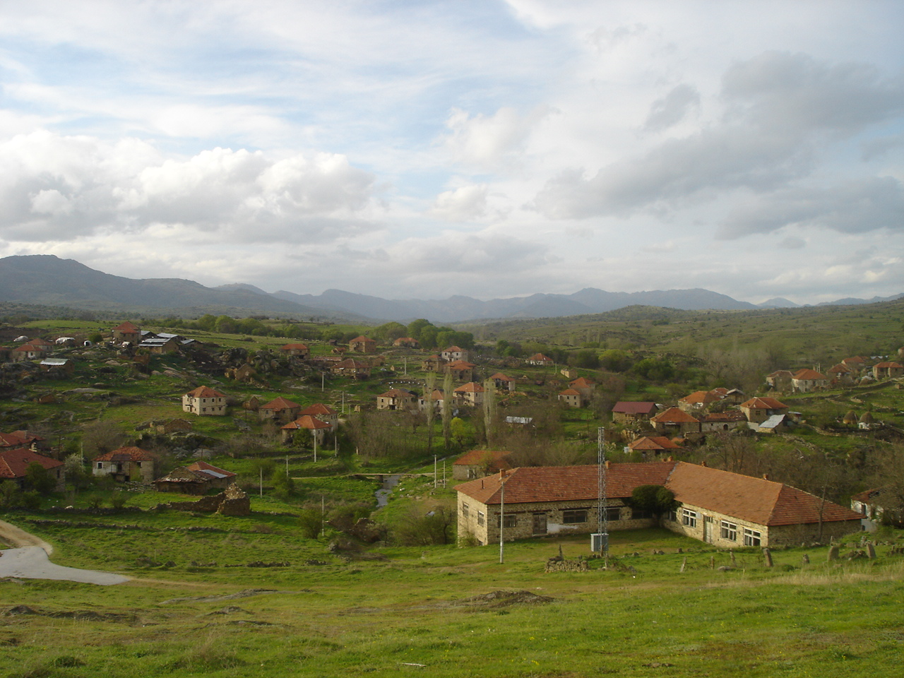 village of Chanishte in Mariovo region, Macedonia